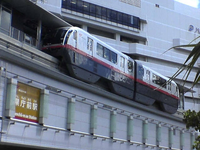 Okinawa Monorail 1000 series at Kencho-mae Station.